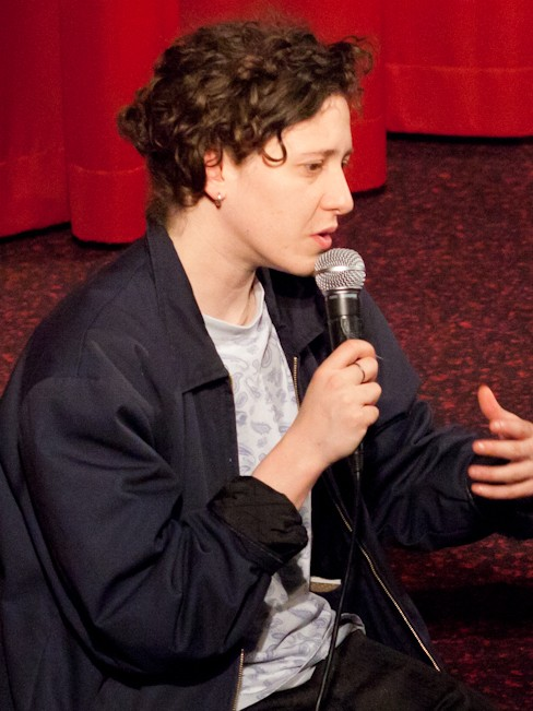 Mica Levi and Petra Erdmann at the 2014 Crossing Europe Film Festival Linz